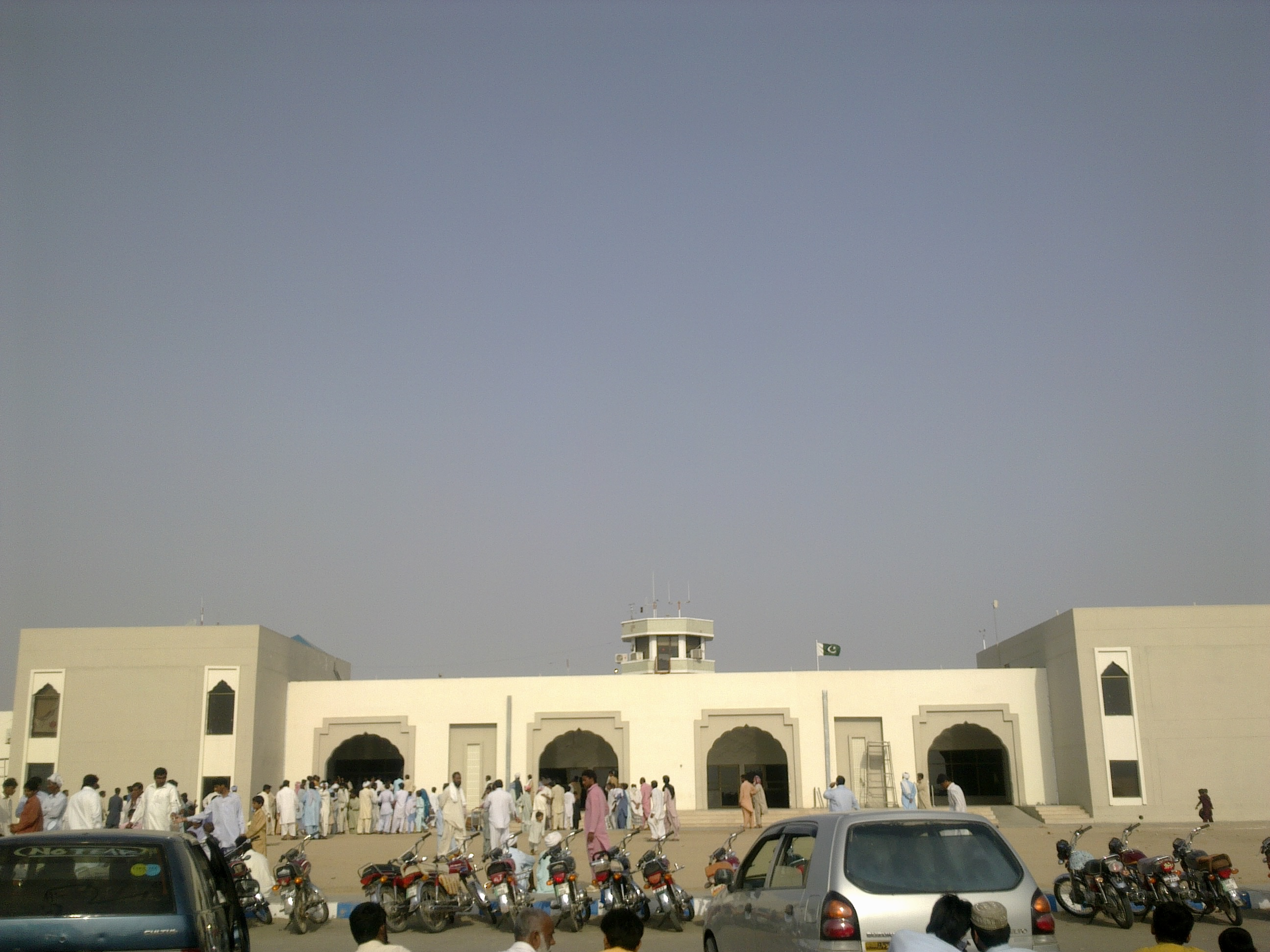 D.G.KHAN INT. AIRPORT